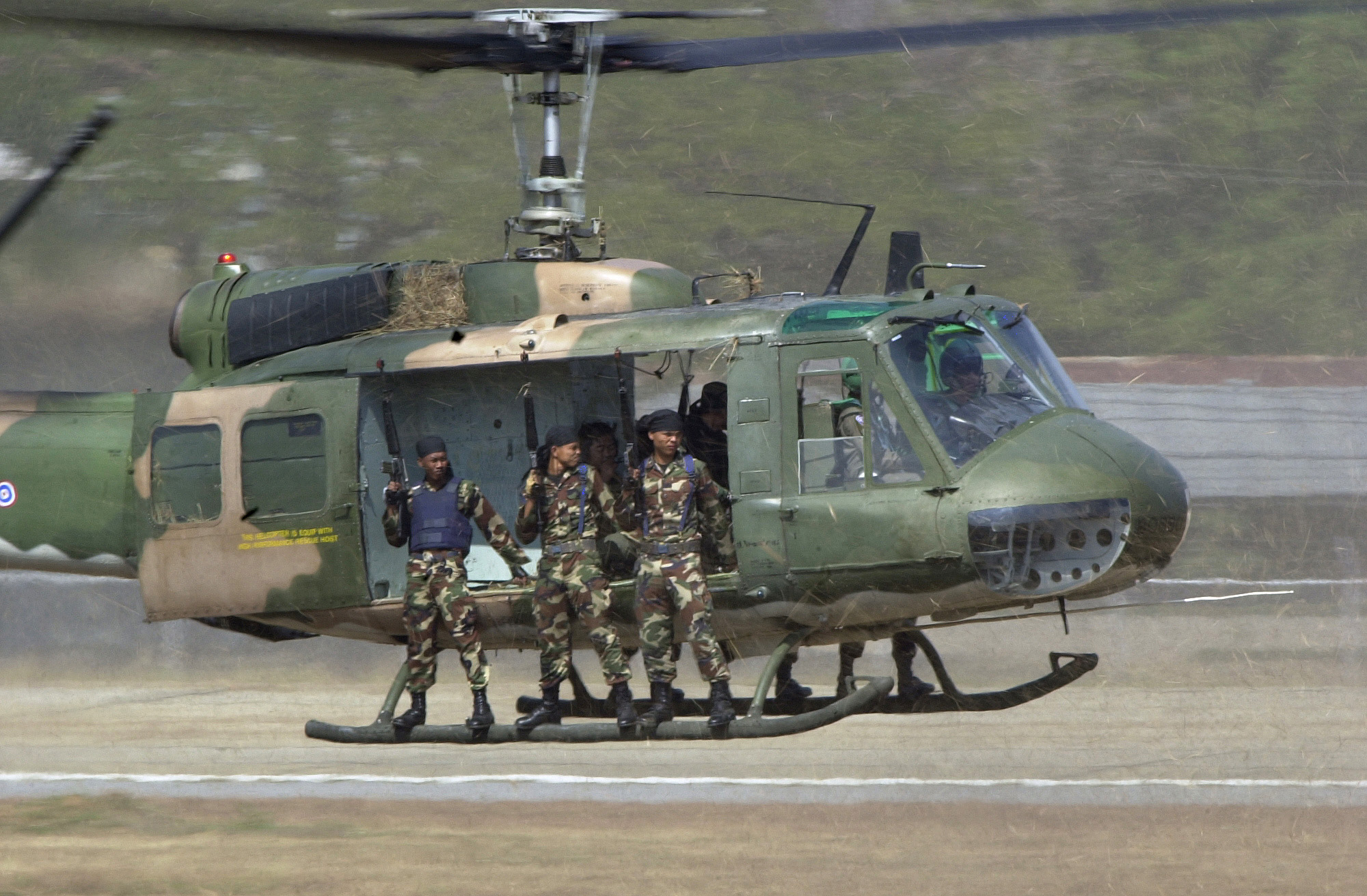 A Royal Thai Air Force Bell UH-1H Huey helicopter flies a Thai special operations unit in support of a pilot extraction exercise at the Royal Thai Air Force air show at Korat Air Base, Thailand, during Exercise "Cope Tiger 2002".